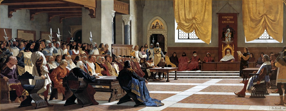 Fresco of Giuseppe Sciuti (1834-1911) "La proclamazione della Repubblica sassarese (Il Consiglio della Repubblica sassarese)", 1880. Palace of the Province, Sassari, Italy Author of the photo: Studio Punto e basta Owner of the work: Ilisso Edizioni, Nuoro, Italy Credits: Sardinia Region